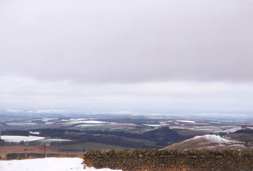 The Scottish Borders from Carter Bar ((c) Ian A. Inman). Summary The Scottish Borders from Carter Bar ((c) Ian A. Inman).